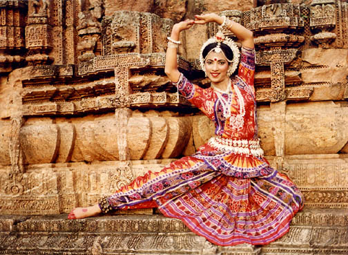 Dipanwita Roy at Konark Sun Temple, Orissa